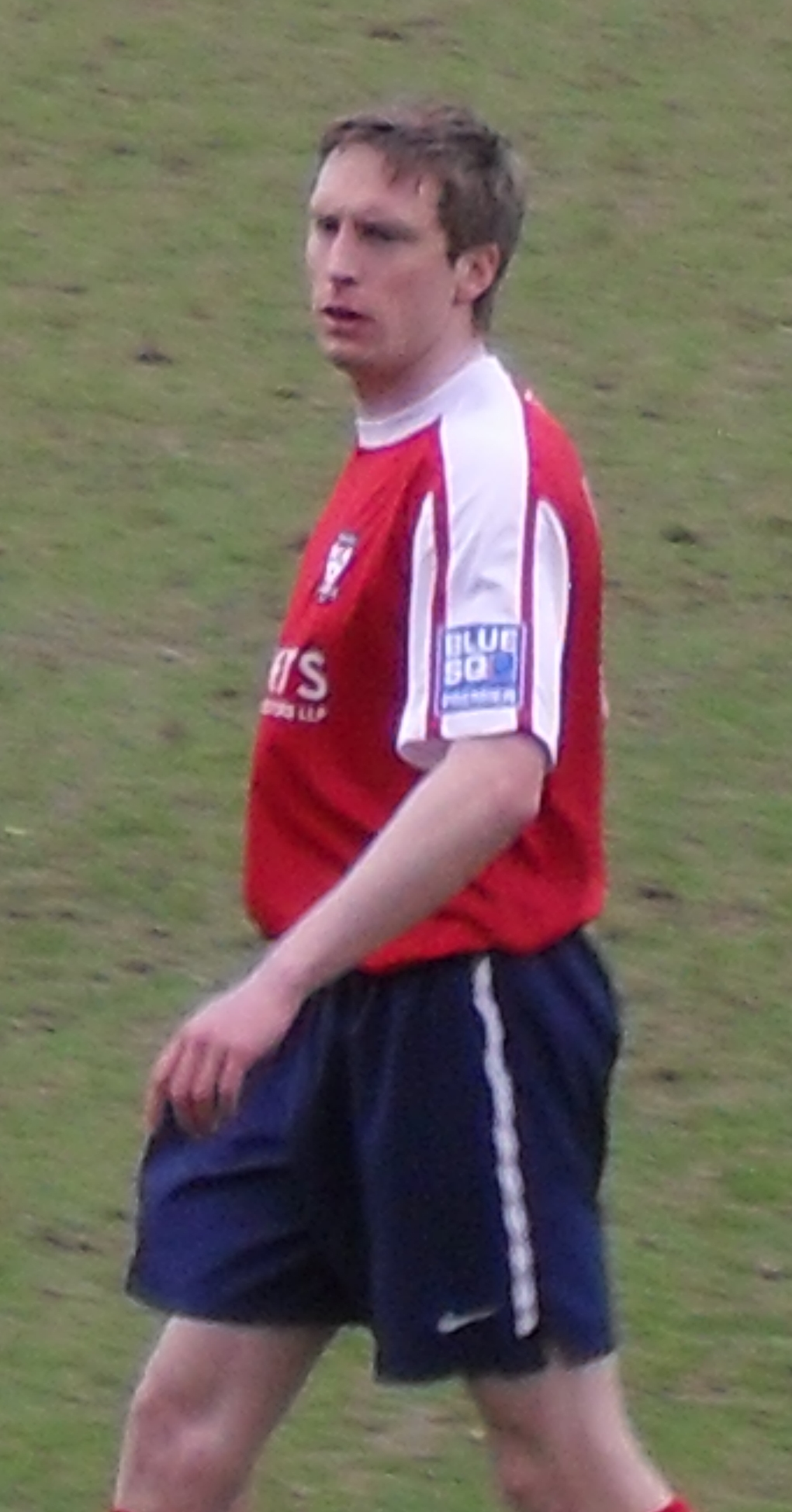 Danny Parslow playing for York City against Eastbourne Borough at Bootham Crescent, York on 12 March 2011